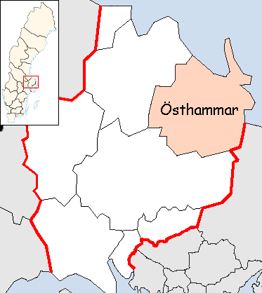 Östhammar Municipality in Uppsala County Designd by me, based on Image:Uppsala County.png